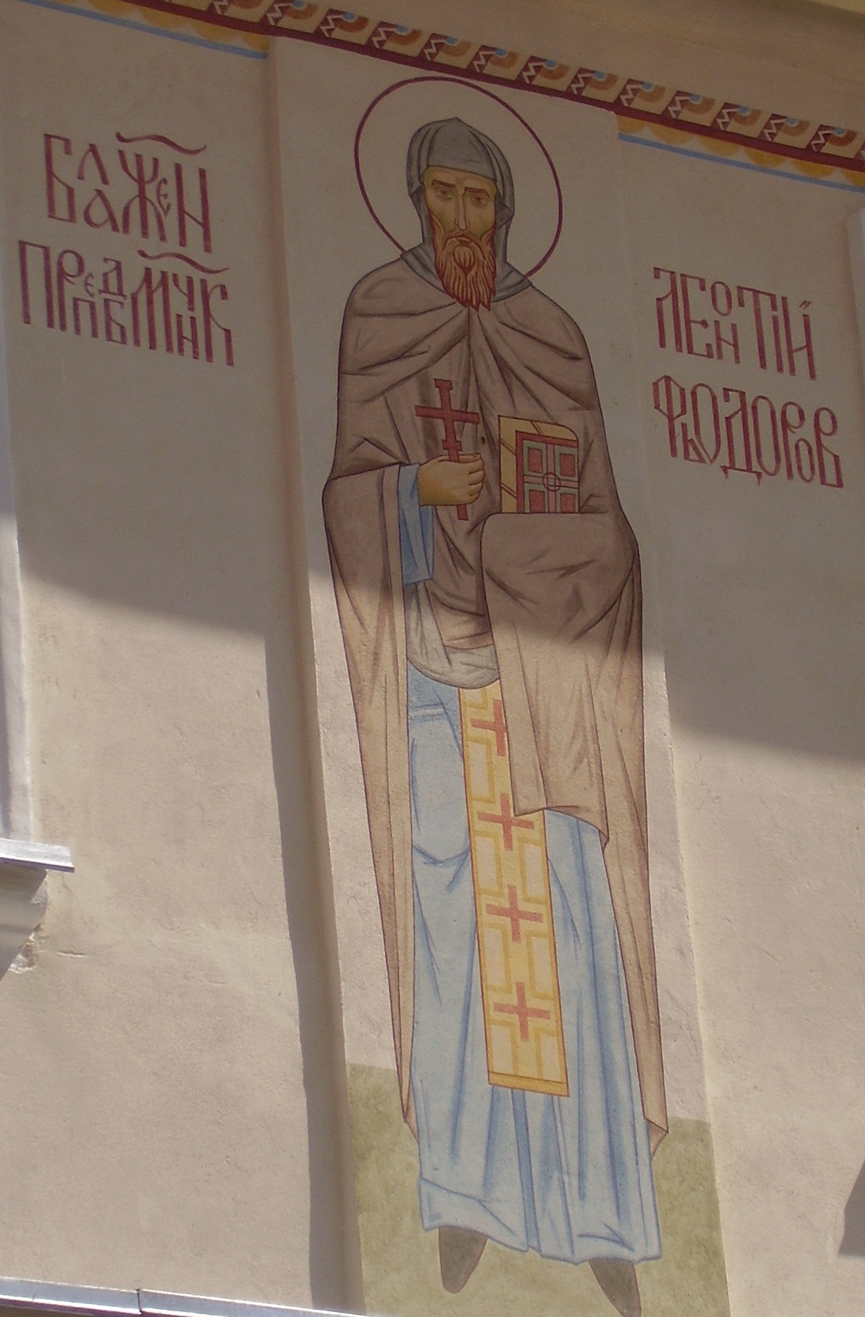 Леонид Федоров, настенная роспись в Унивской Лавре